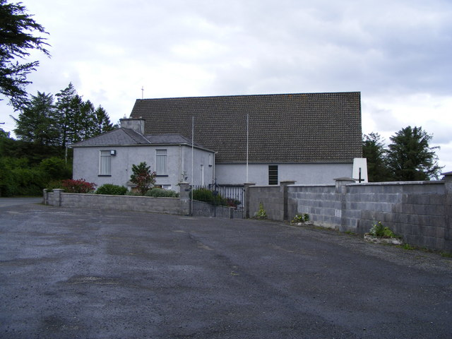 Church at Killanena - Killanena Townland